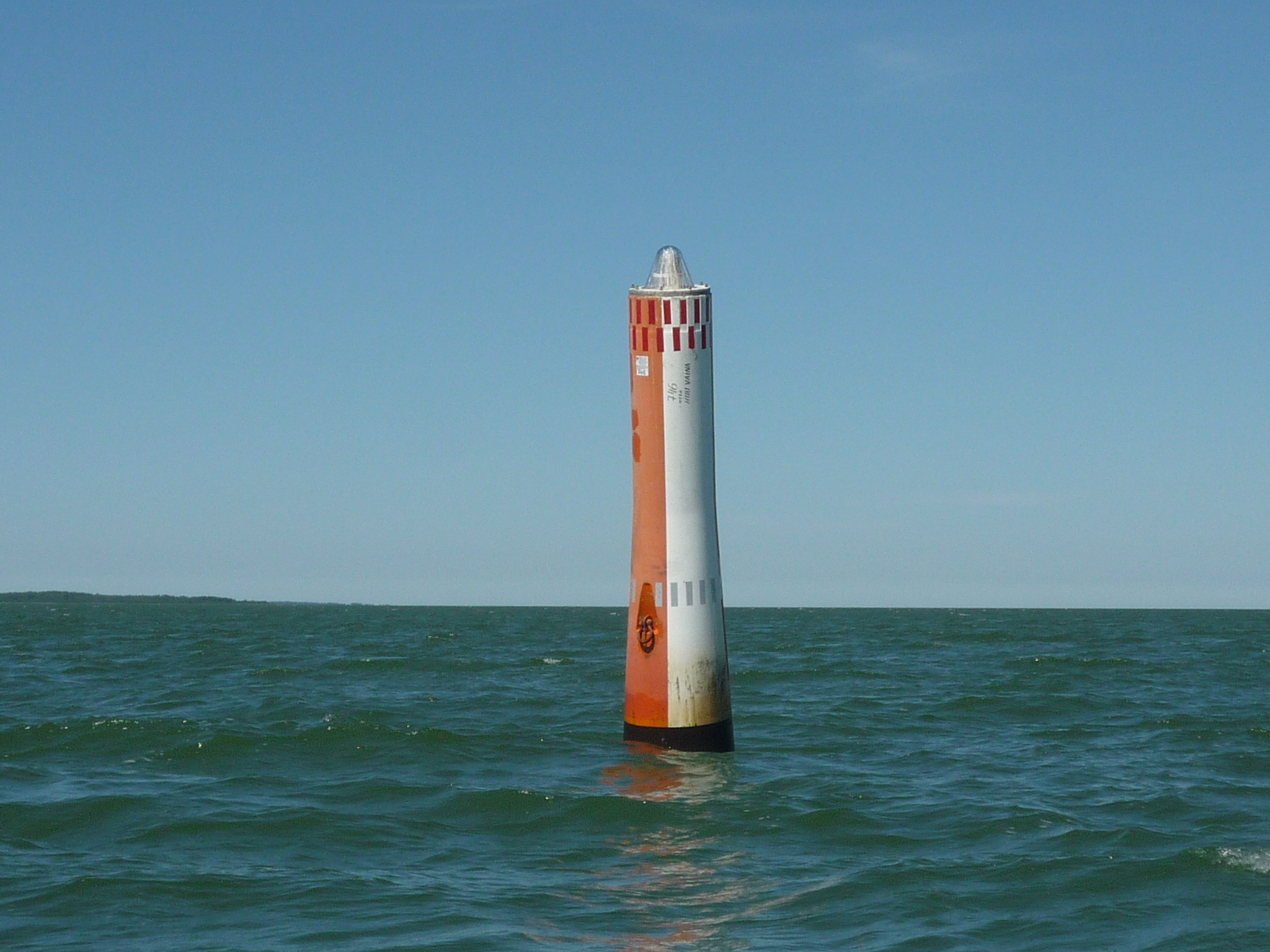 Hiiu väin fairway buoy. Estonian mark no 746. View from south. Kõverlaid and Heinlaid (small islands) in the background. Western part of Estonia.